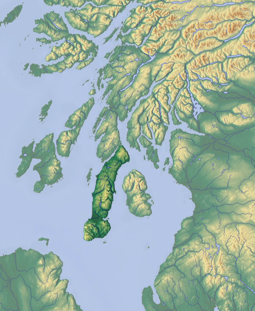 Argyll with Kintyre highlighted centre